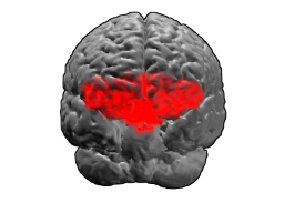 Brodmann area 11 BA11 is on the ventral surface (underside) of the anterior frontal lobe. The brain is viewed from the front and below in this image. The brain's surface is extracted from structural MRI data (Wellcome Dept. Imaging Neuroscience, UCL, UK). The Brodmann Area data is based on information from the online Talairach demon (an electronic version of Talairach and Tournoux, 1988). These images were created using Blender and Matlab. reference:Talairach, J., and Tournoux, P. Co-Planar Stereotactic Atlas of the Human Brain., New York: Thieme, 1988.